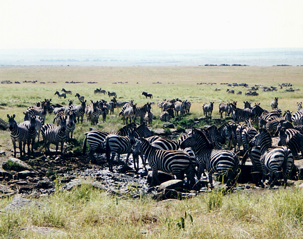 The Masai Mara National Park in Kenya.